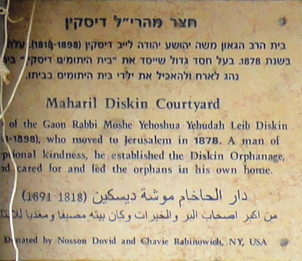 Old Jerusalem, Muslim Quarter, Aqbat e-Saraya street 68, Diskin courtyard sign